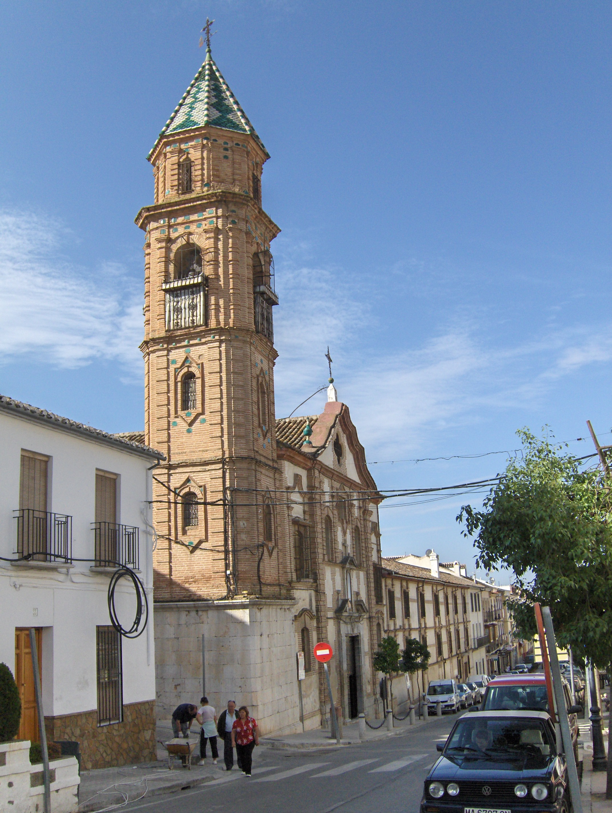 Convent of las Mínimas, Archidona